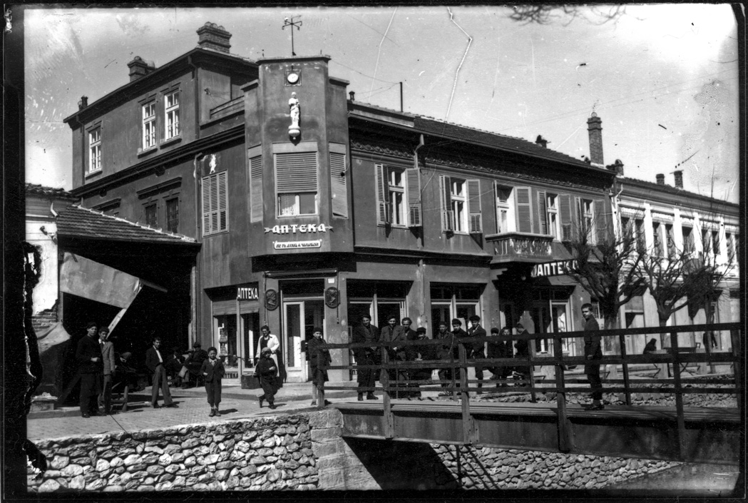 The building of Calovski pharmacy, glass disk (98X146 mm), Bitola, c. 1930. This media file is produced by Wikipedian in Residence in Category:Wikipedian in Residence at DARM in 2017.